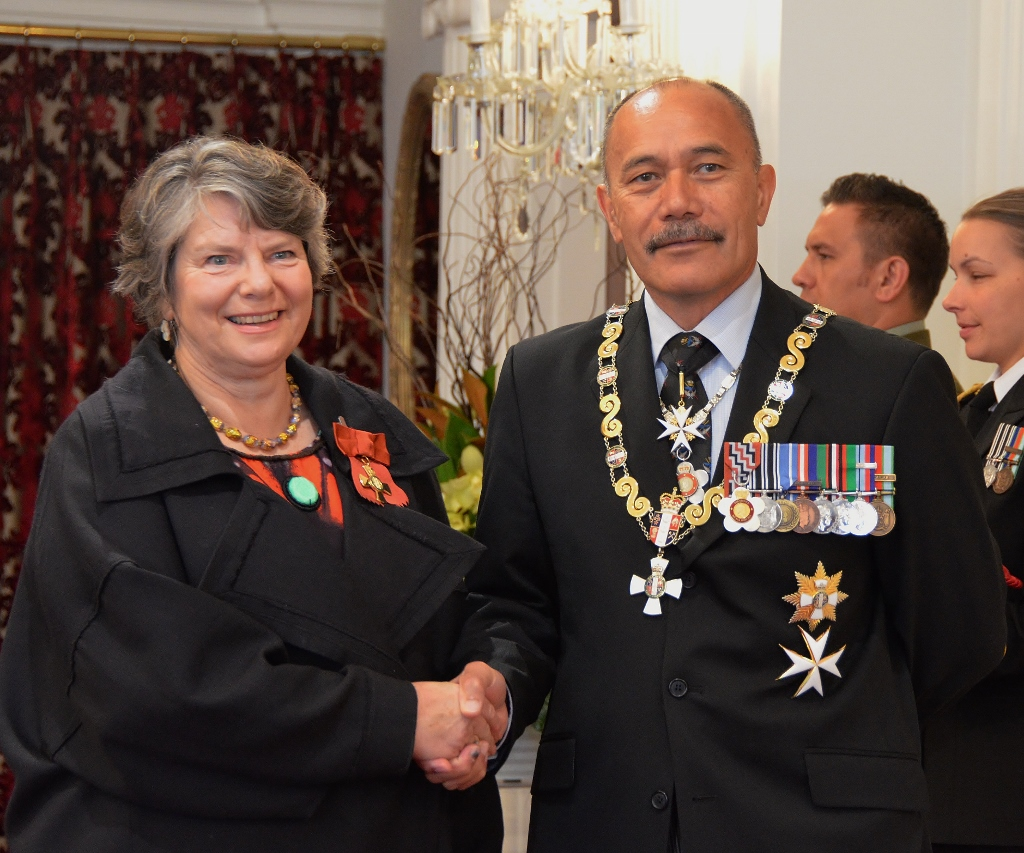 Jane Tolerton, after her investiture as ONZM, for services to historical research, by the governor-general, Sir Jerry Mateparae, on 13 April 2016